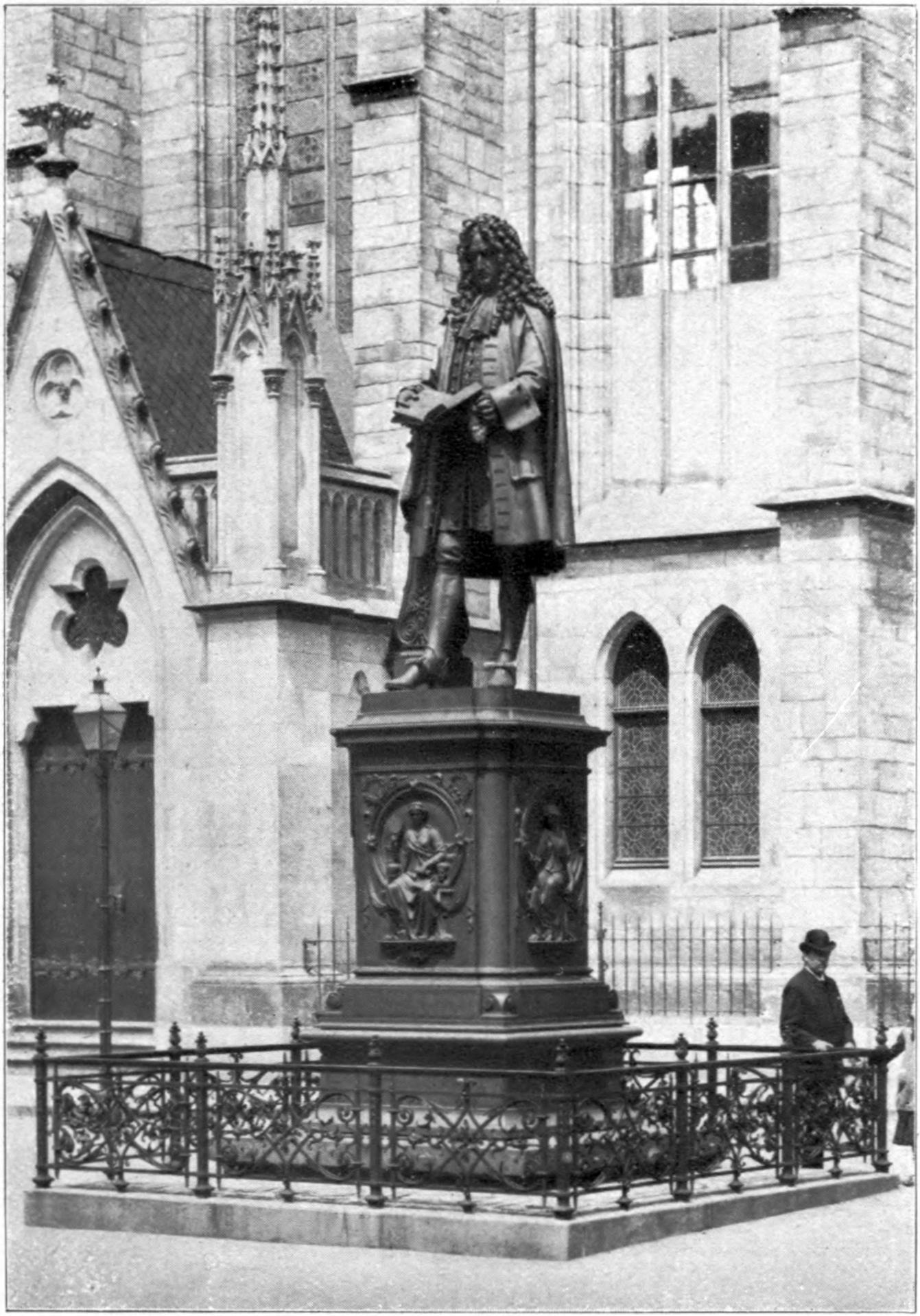 Leibniz Discourse on Metaphysics etc - Frontispiece